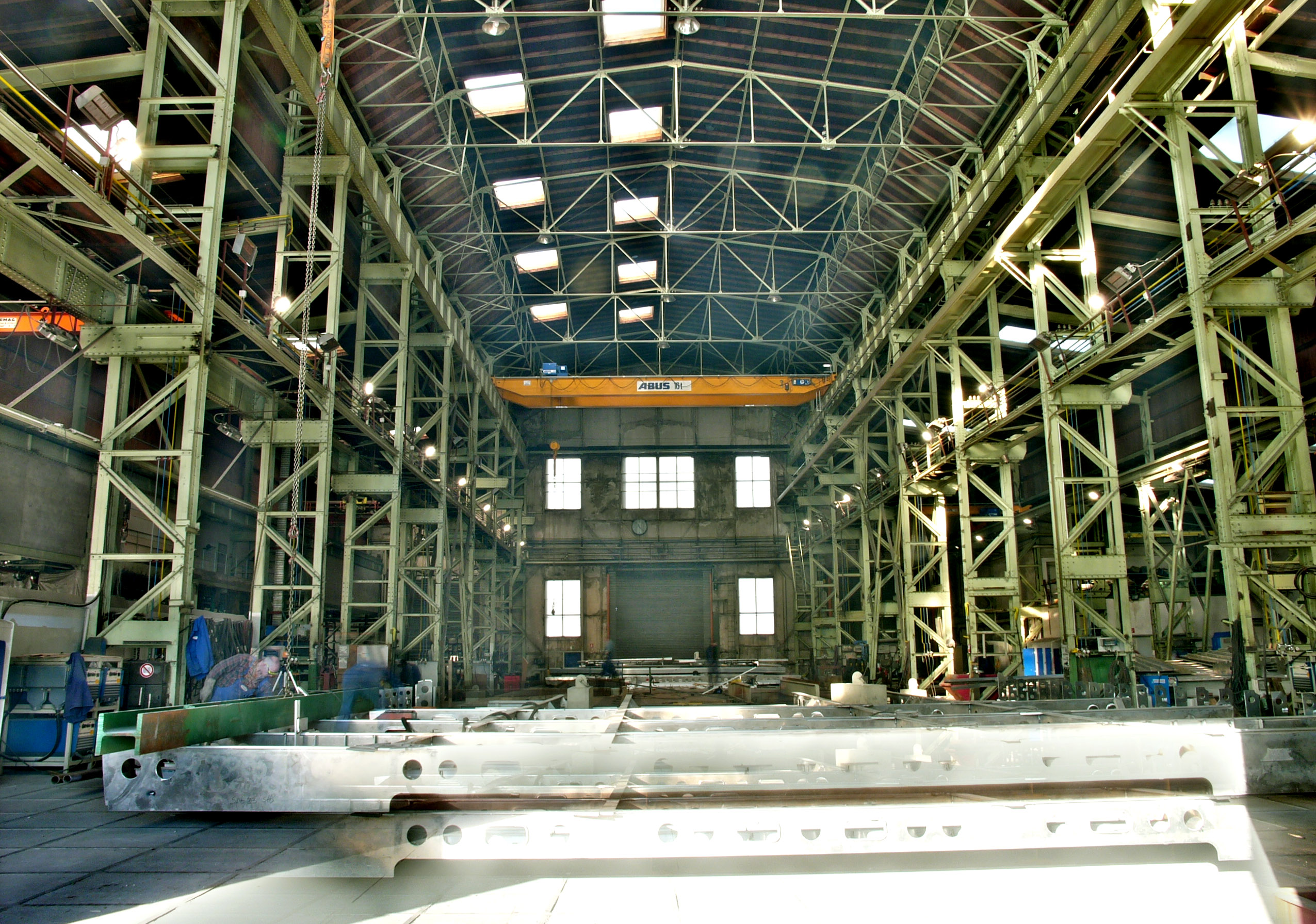 Construction hall of Schichau Seebeck Shipyard GmbH in Bremerhaven, Germany.